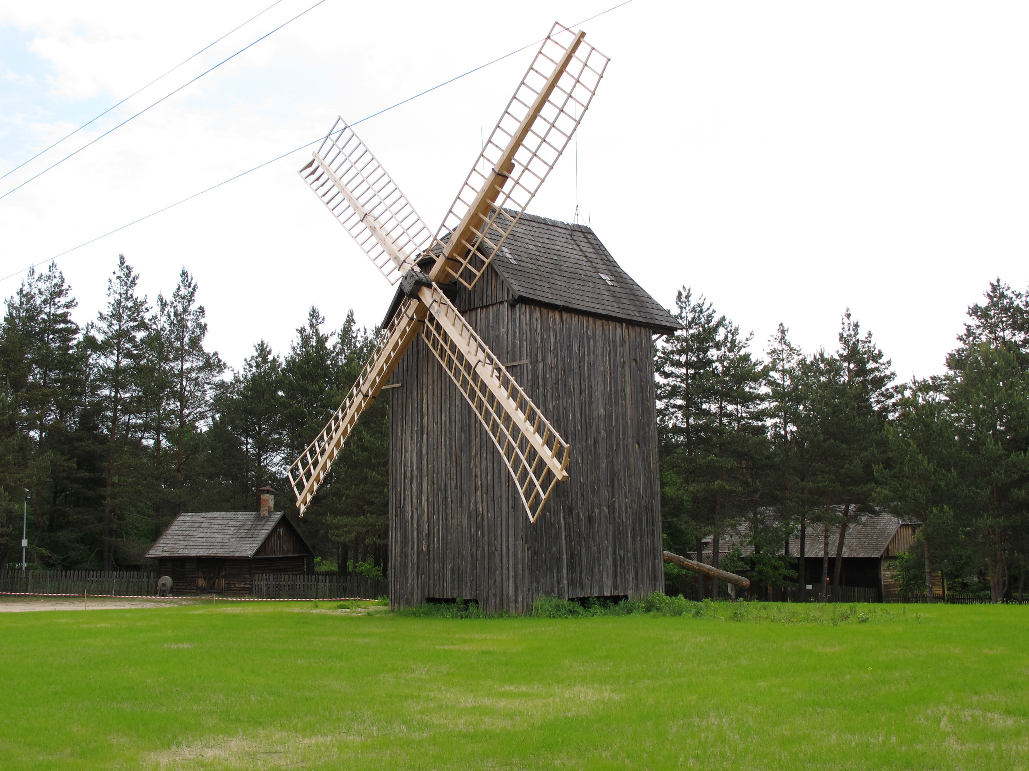 Windmill at Białystok Country Museum near Osowicze village, gmina Wasilków, podlaskie, Poland